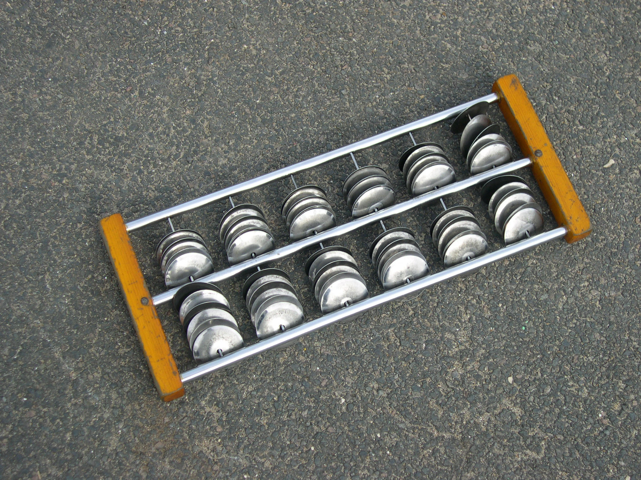 Chocalho with lateral wood handles.